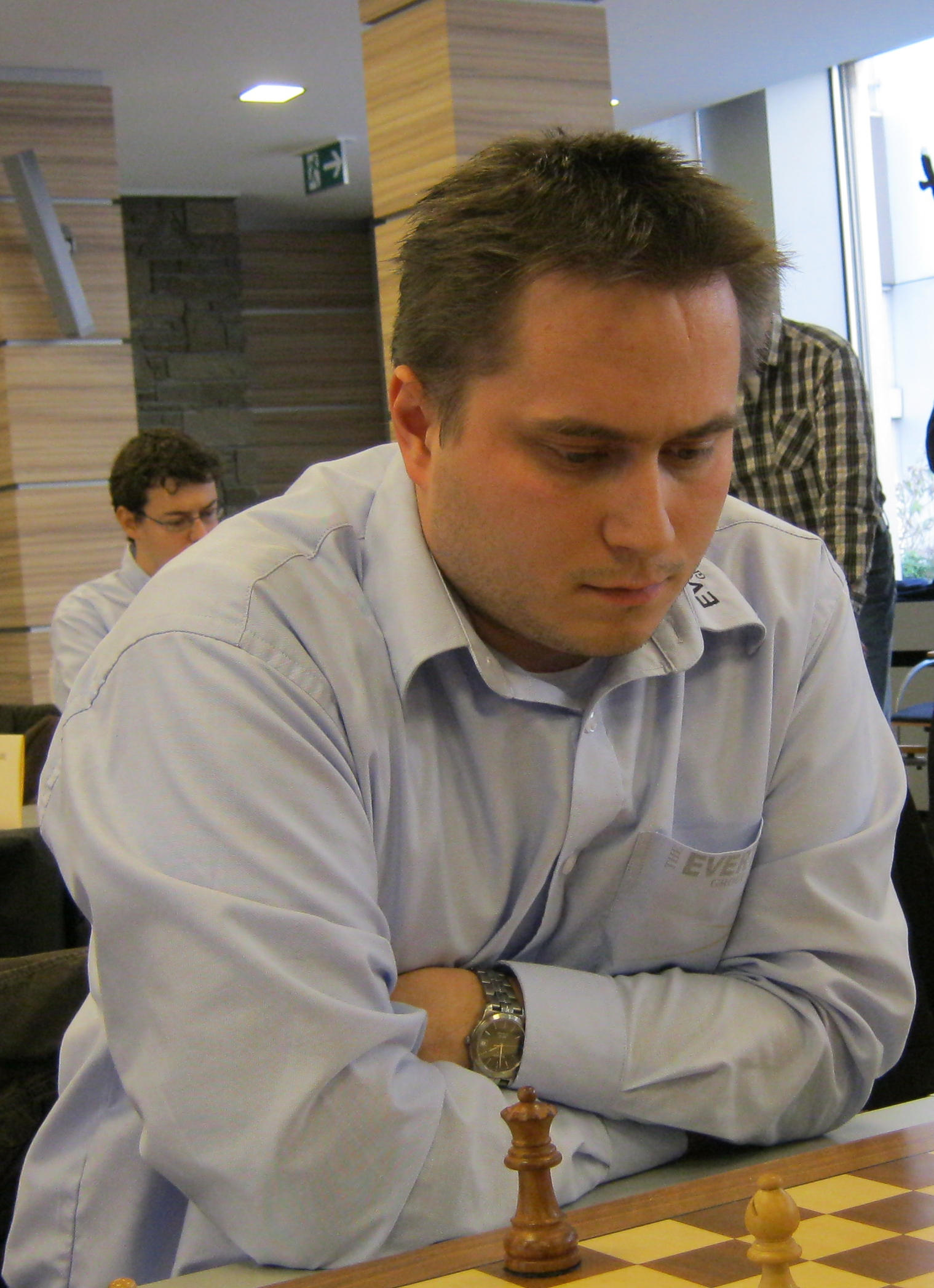 Alexander Naumann, chess grandmaster from Germany